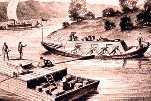 Flatboat (foreground) and Keelboat around Pittsburgh, late 18th century